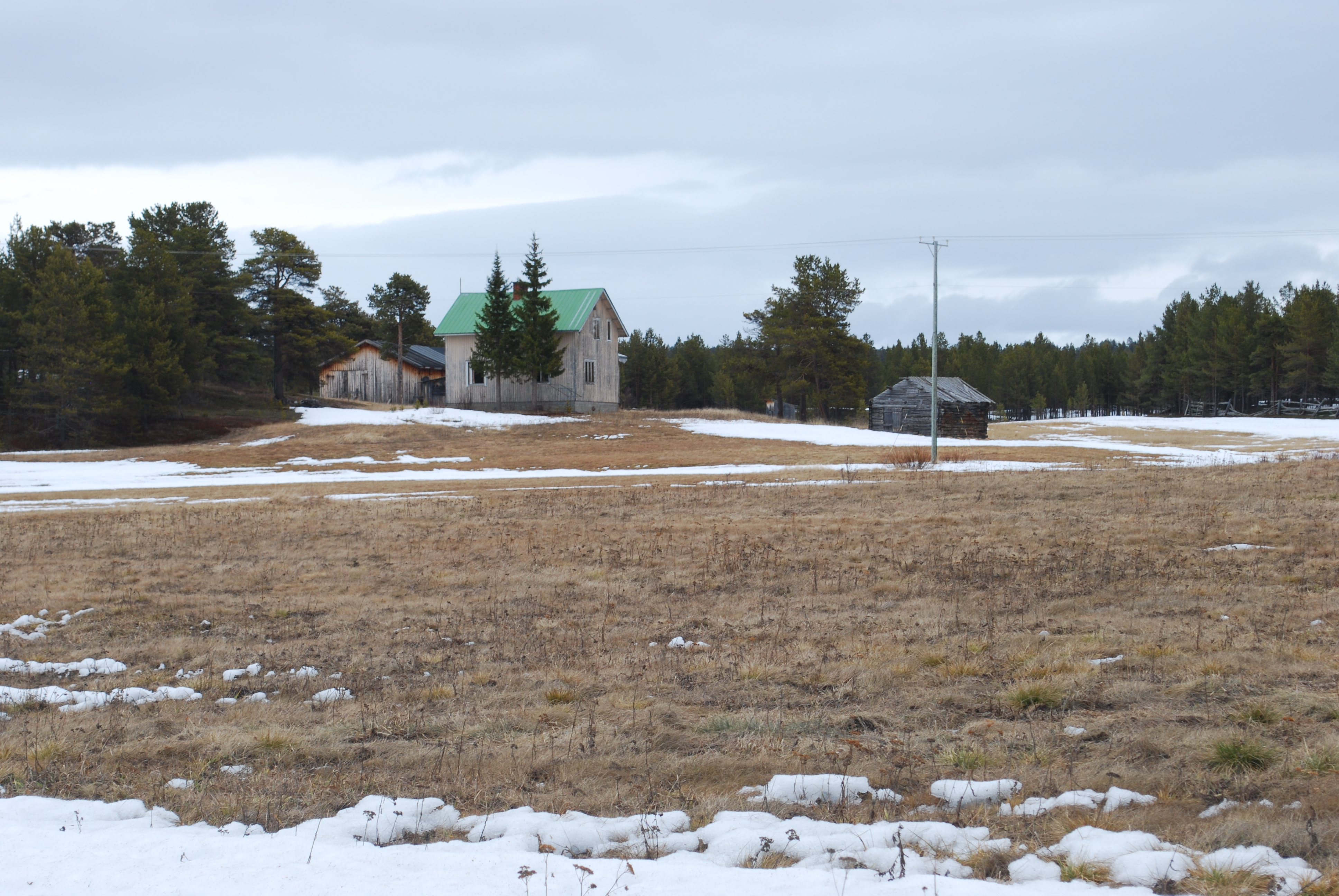 House in Angeli, Inari municipality, close to the Norwegian border and the Place Helligskogen